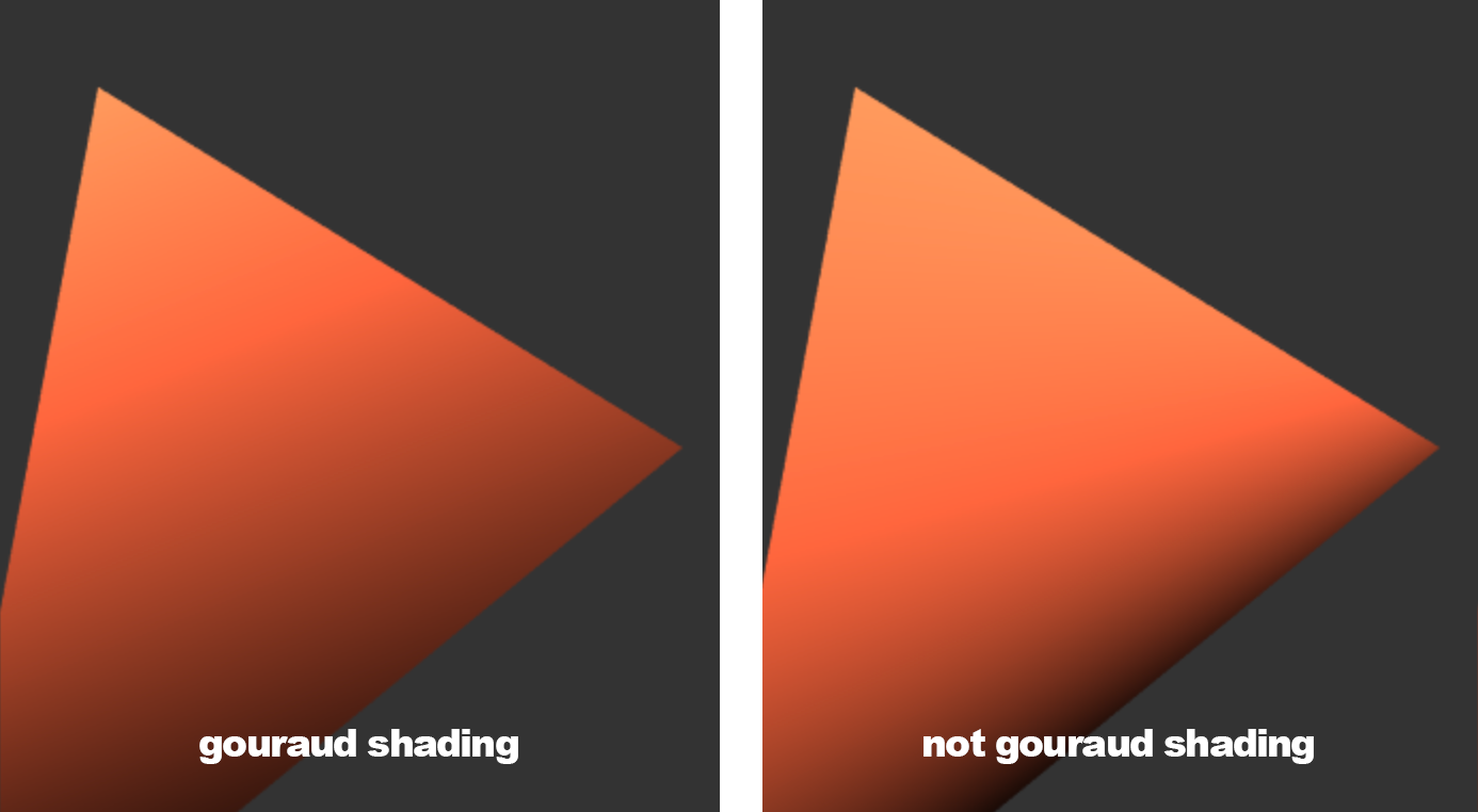 The difference between Gouraud Shading and what most GPUs do by default